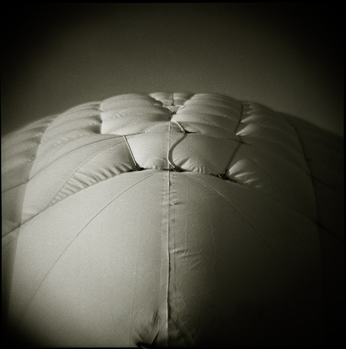 Swanson Tennis Center at Gustavus Adolphus College.